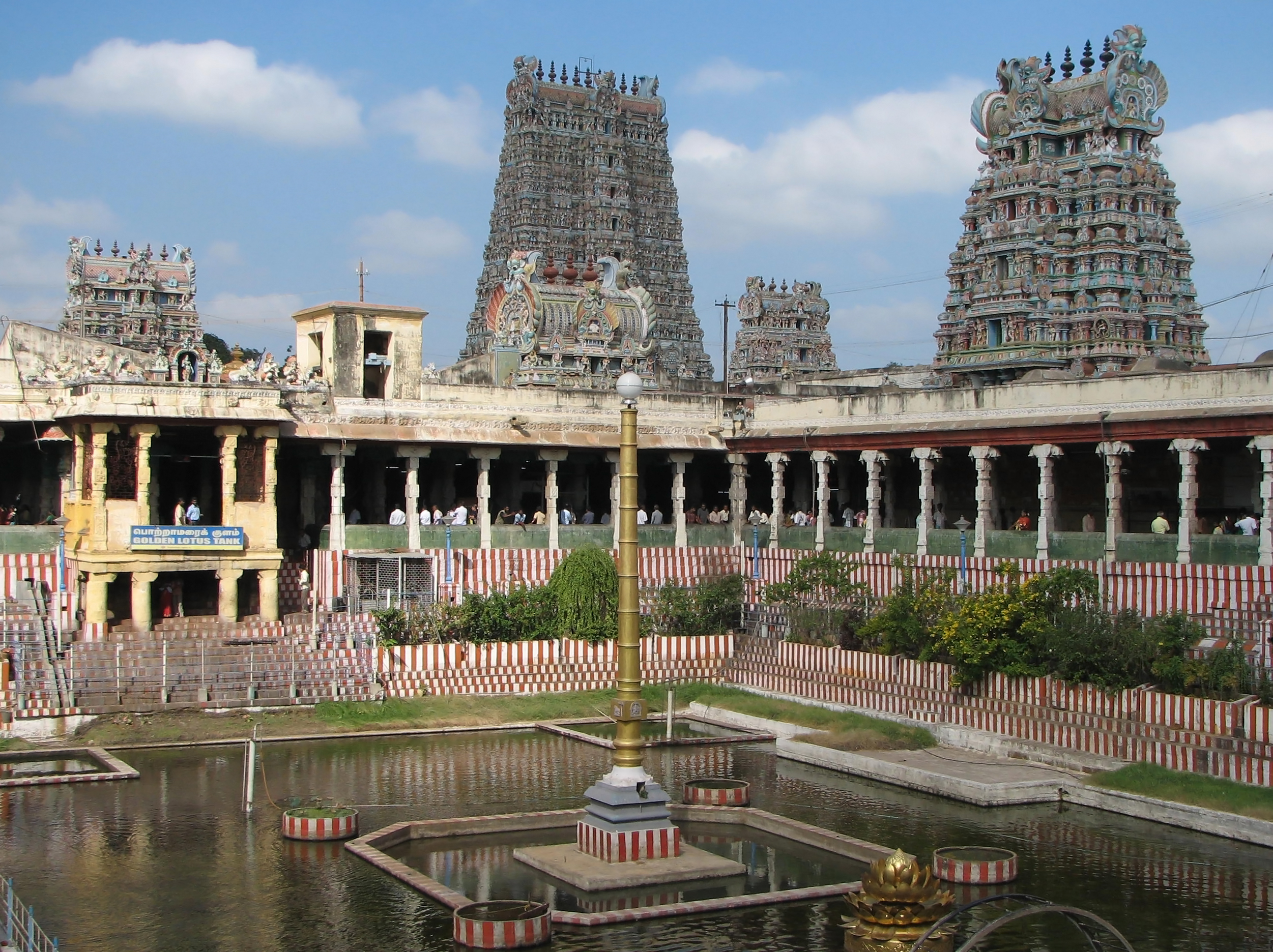 Meenakshi Amman temple, Madurai, state of Tamil Nadu, India